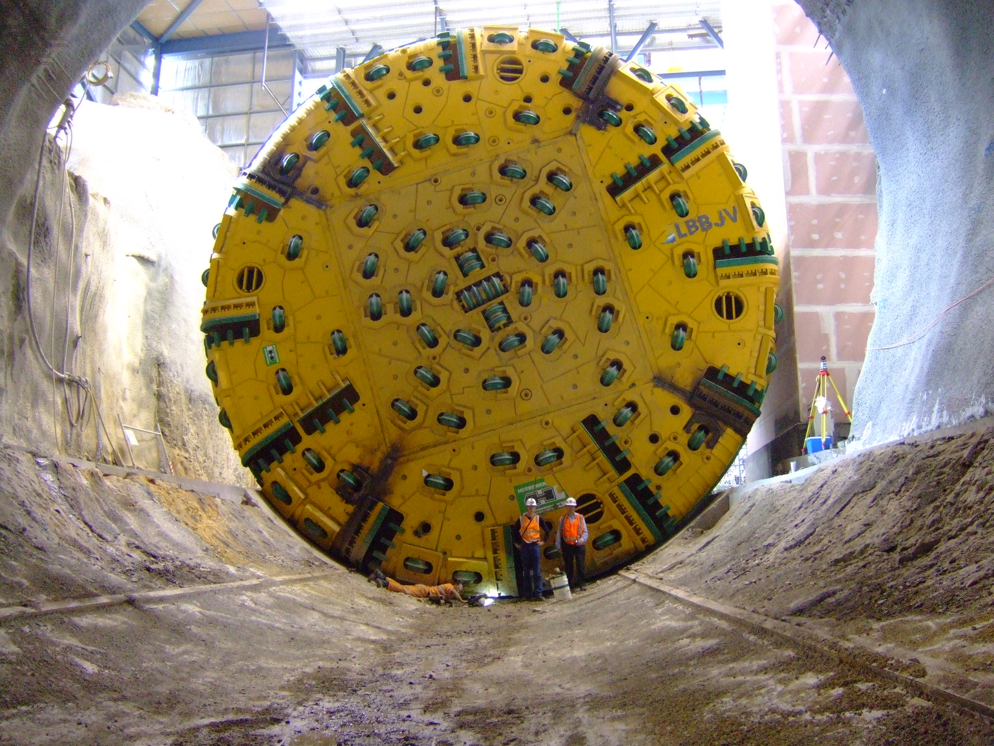 TBM Matilda excavating the northbound tunnel tube of the North South Bypass Tunnel in Brisbane, Australia